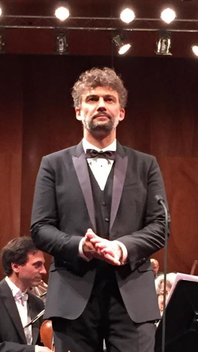 A photograph of Jonas Kaufmann's curtain call during his 2015 Puccini concert at La Scala in Milan